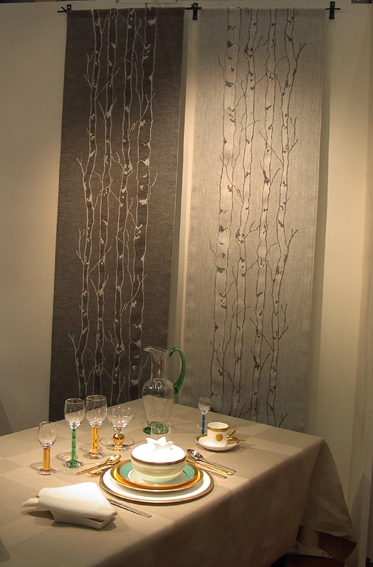 Woven table linen